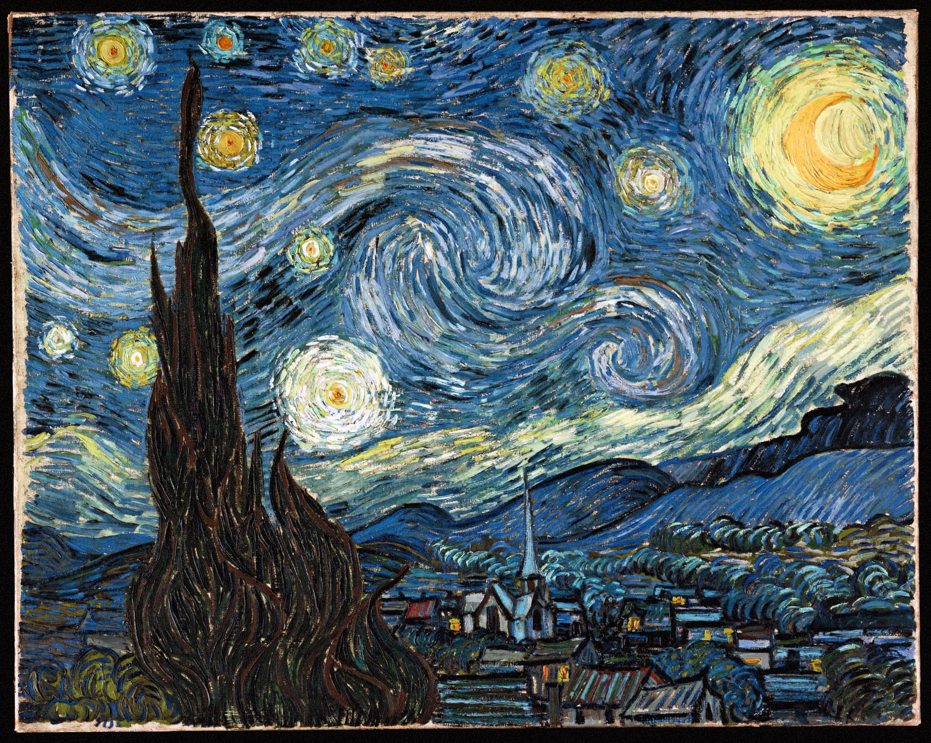 Vincent van Gogh's painting Starry Night. Taken from the file below, and minimally adjusted to eliminate some over-intensity, and yellowing and attempt to bring out the true nature of the colours ie Prussian blue, Ultramarine, Cobalt and Cerulean blues all occur in the sky. Burnt Siena brown in the tree, and Crimson on the stripy house. These colours are lost in auto-digital corrections.